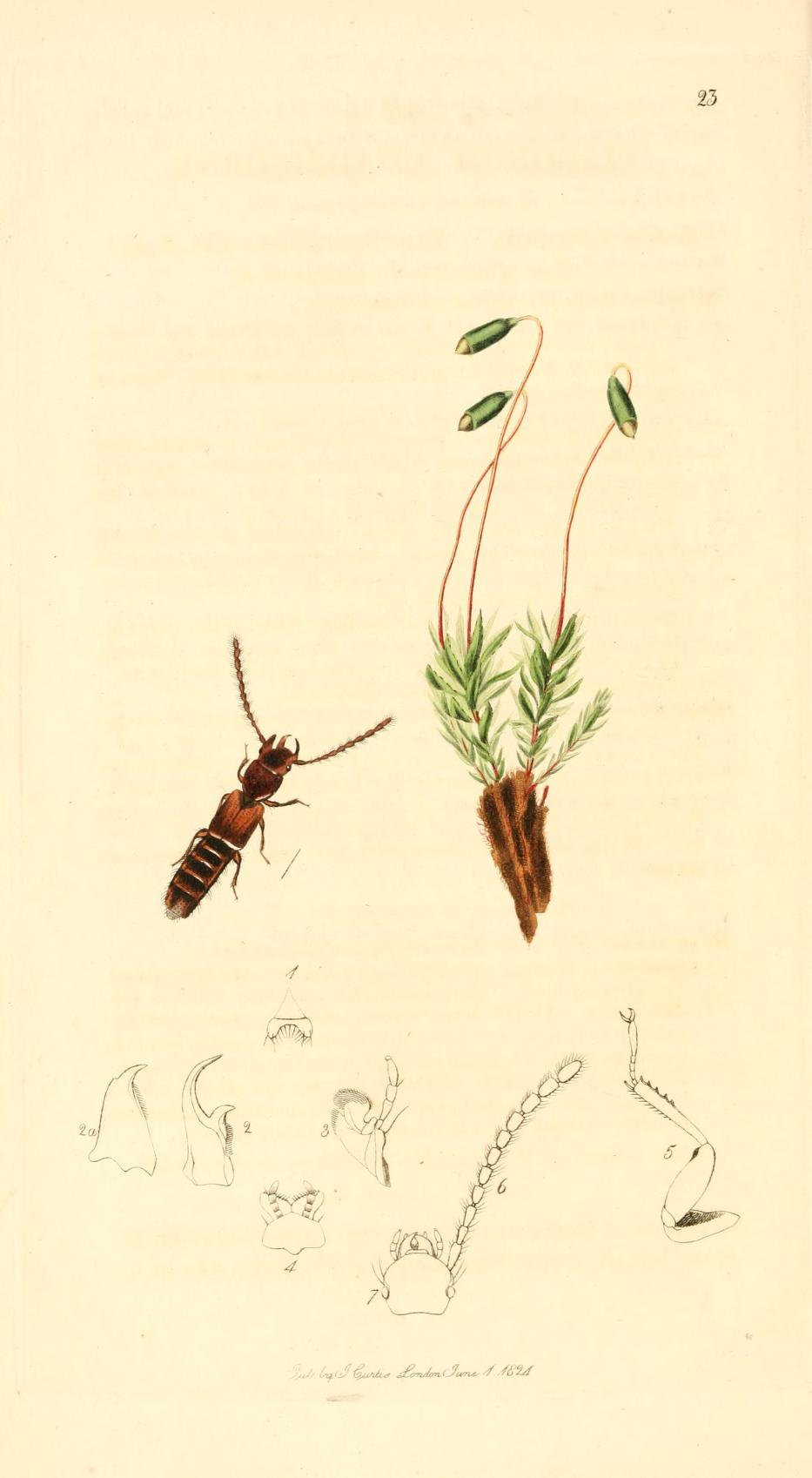 An illustration from British Entomology by John Curtis. name Coleoptera: Siagonium quadricorne (Four-horned Staphylinus).The plant is Mnium hornum (Thread Moss)